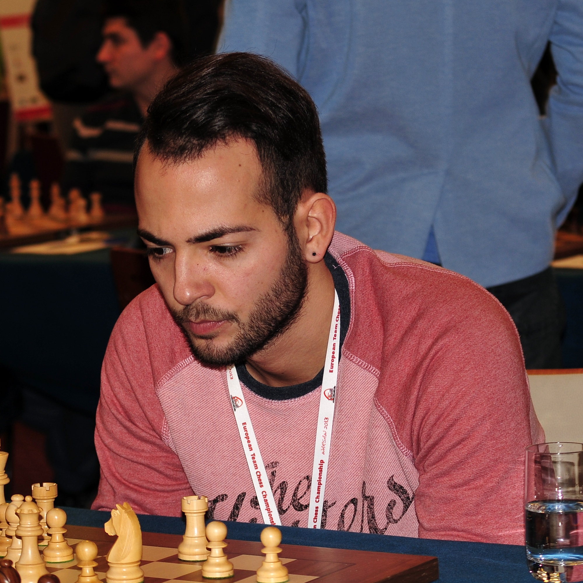 GM Tamás Bánusz, European Chess Team Championship Warsaw 2013